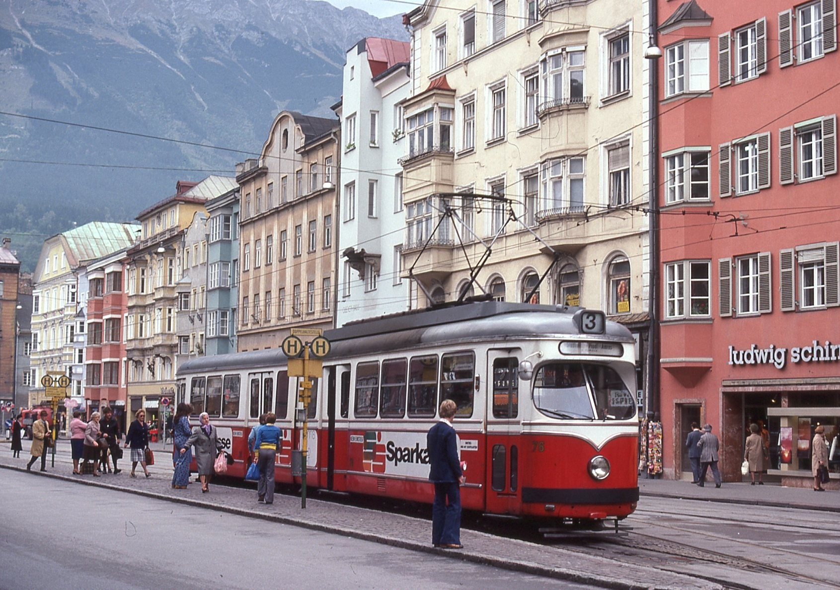 Car 76 on line 3 on the now closed section through the Maria-Theresien-Straße.